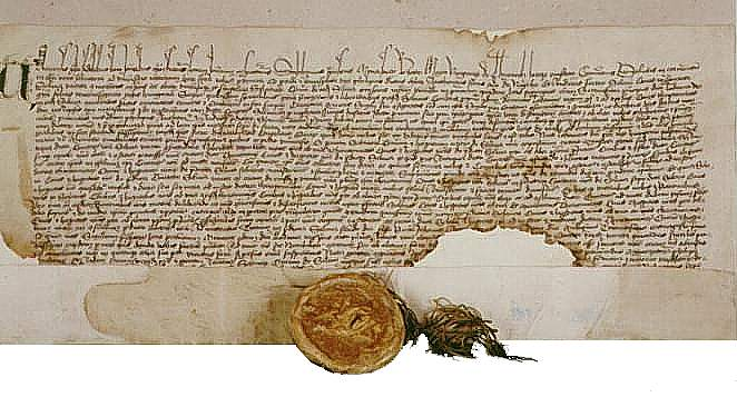 Privilegium Pro Slavis, given to the Slavs in Žilina in 1381. by king Louis I